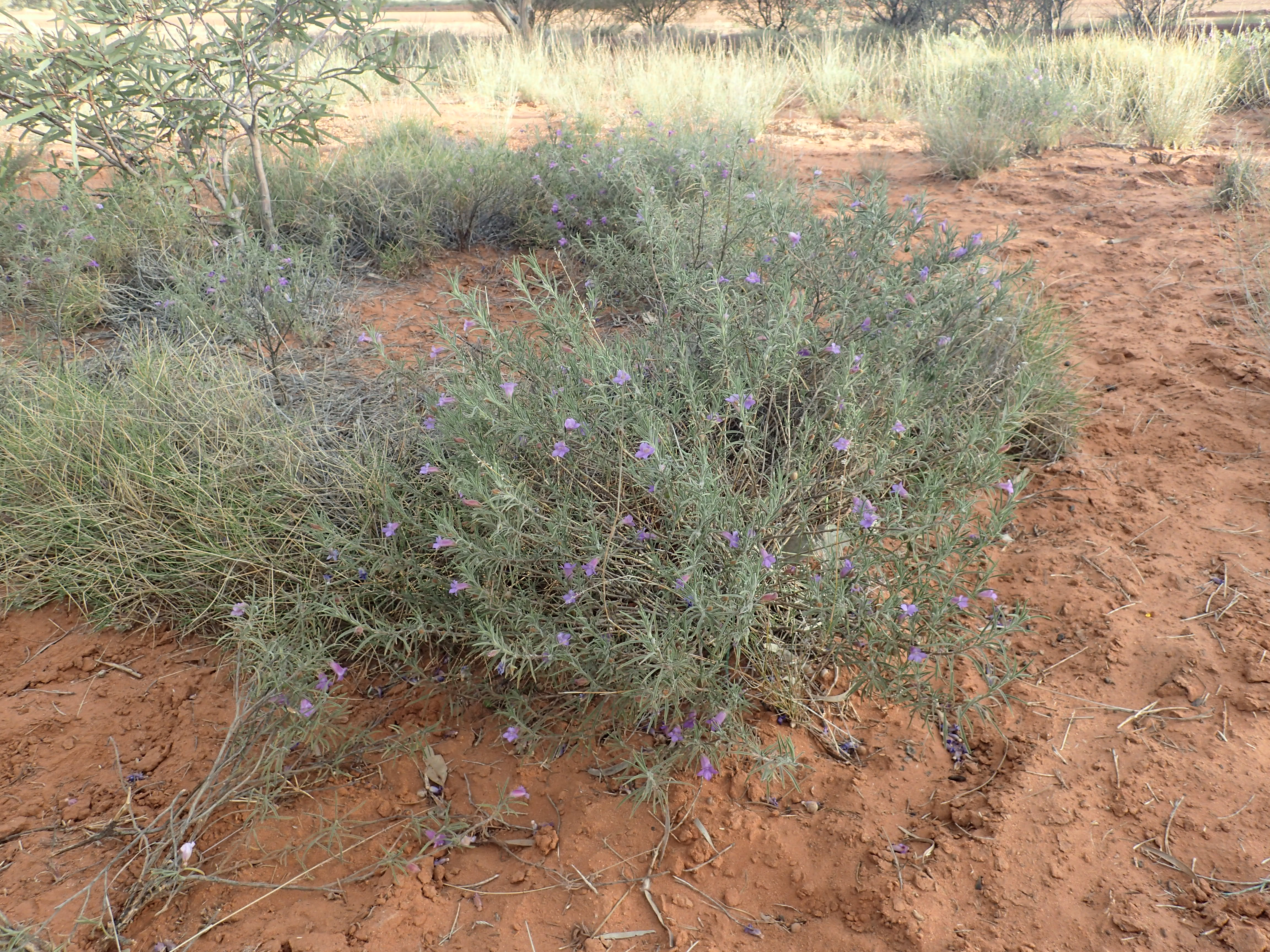 Eremophila gilesii gilesii growing near the Uramurdah Creek crossing on Wongawol Road